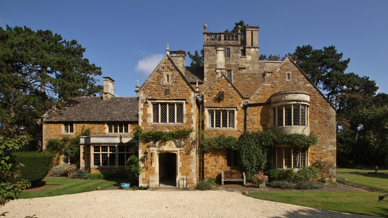 Castle House, Deddington, Oxfordshire, seen from the south